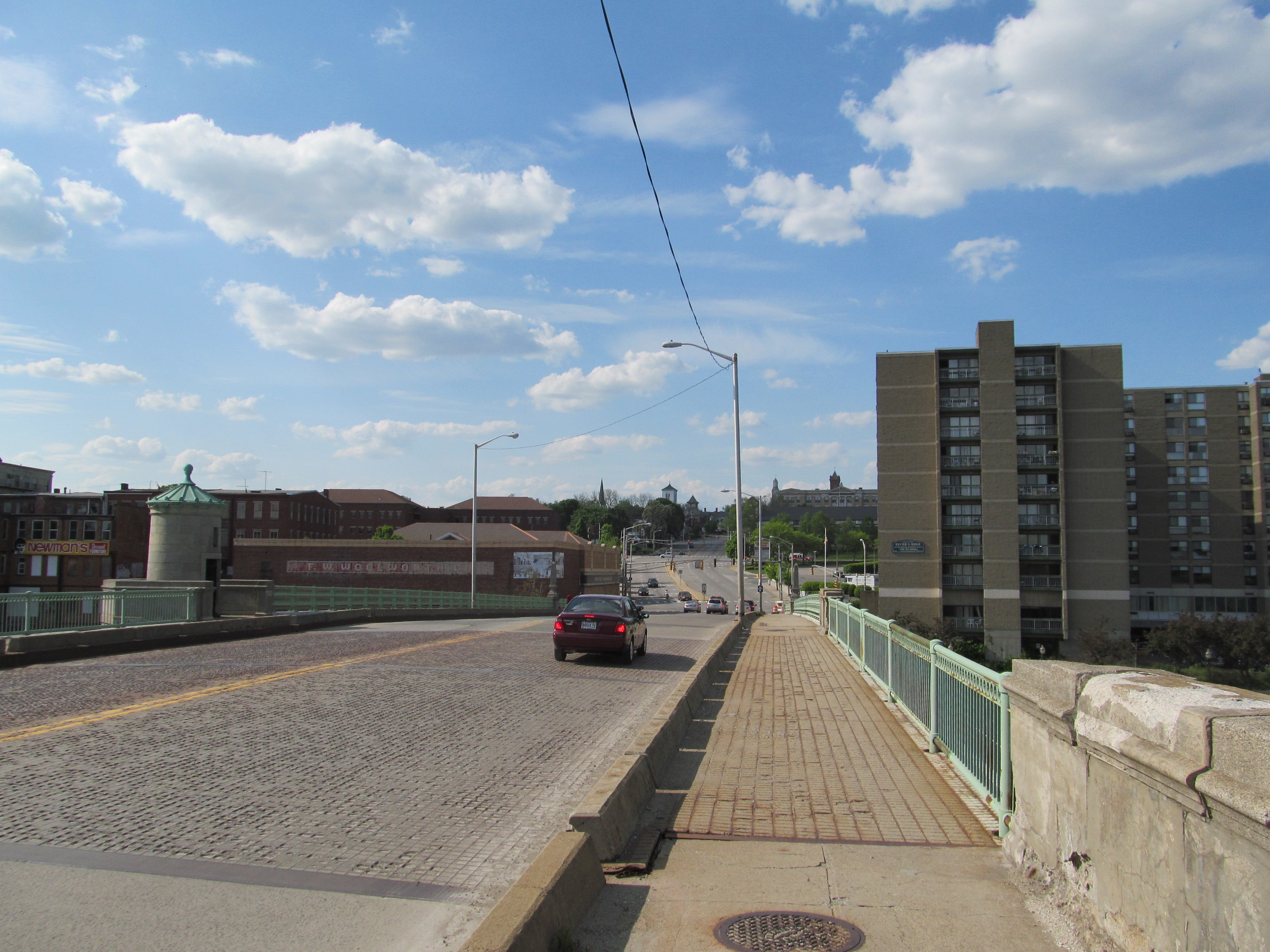 The Basiliere Bridge, on MA Route 125 northbound, Haverhill Massachusetts